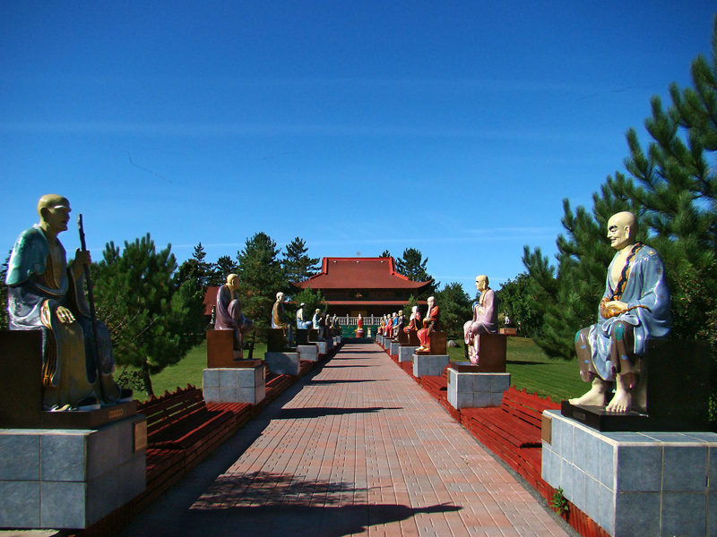 Buddhist Monastery of Tam Bao Son, Township of Harrington, Laurentides, Quebec, Canada. Alley toward the Principal Temple with a thousand Buddhas.